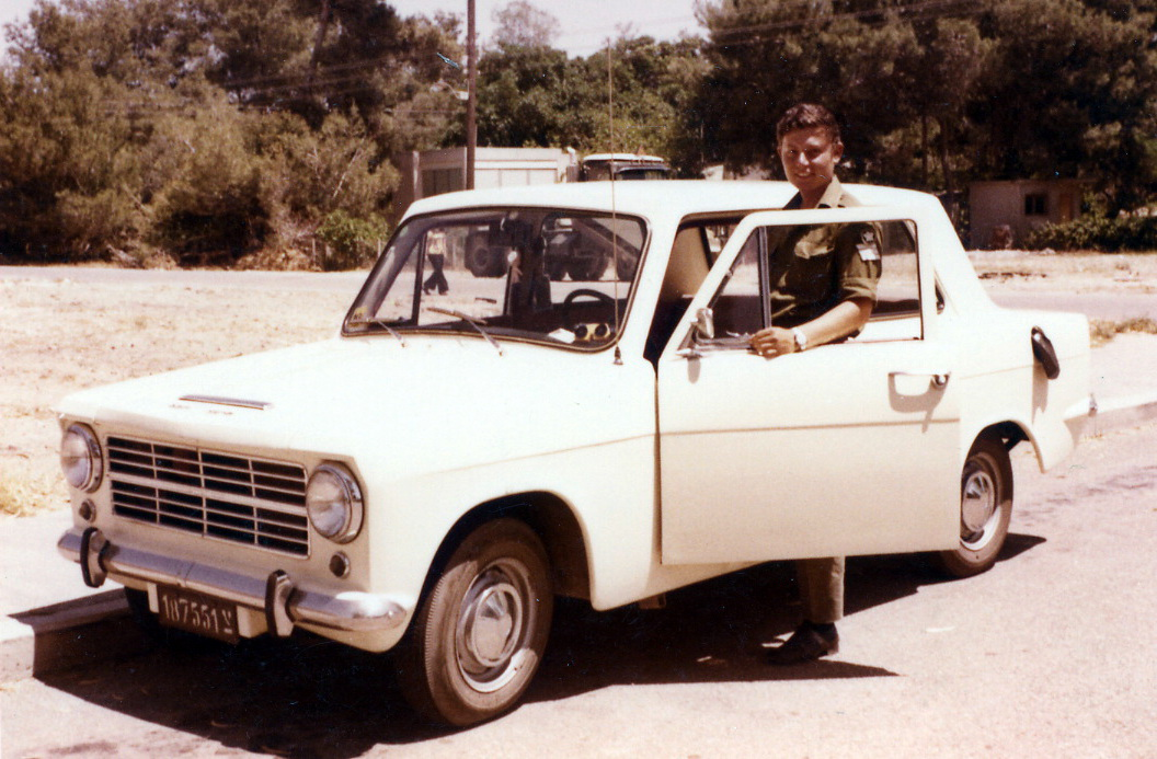 Transport in Israel